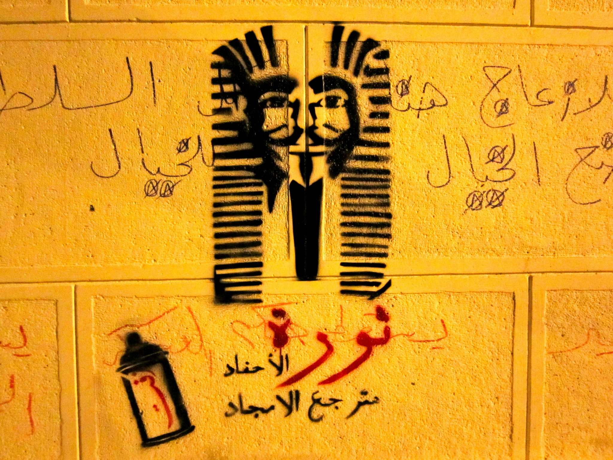 We are anonymous. We do not forgive. We do not forget. Expect us.